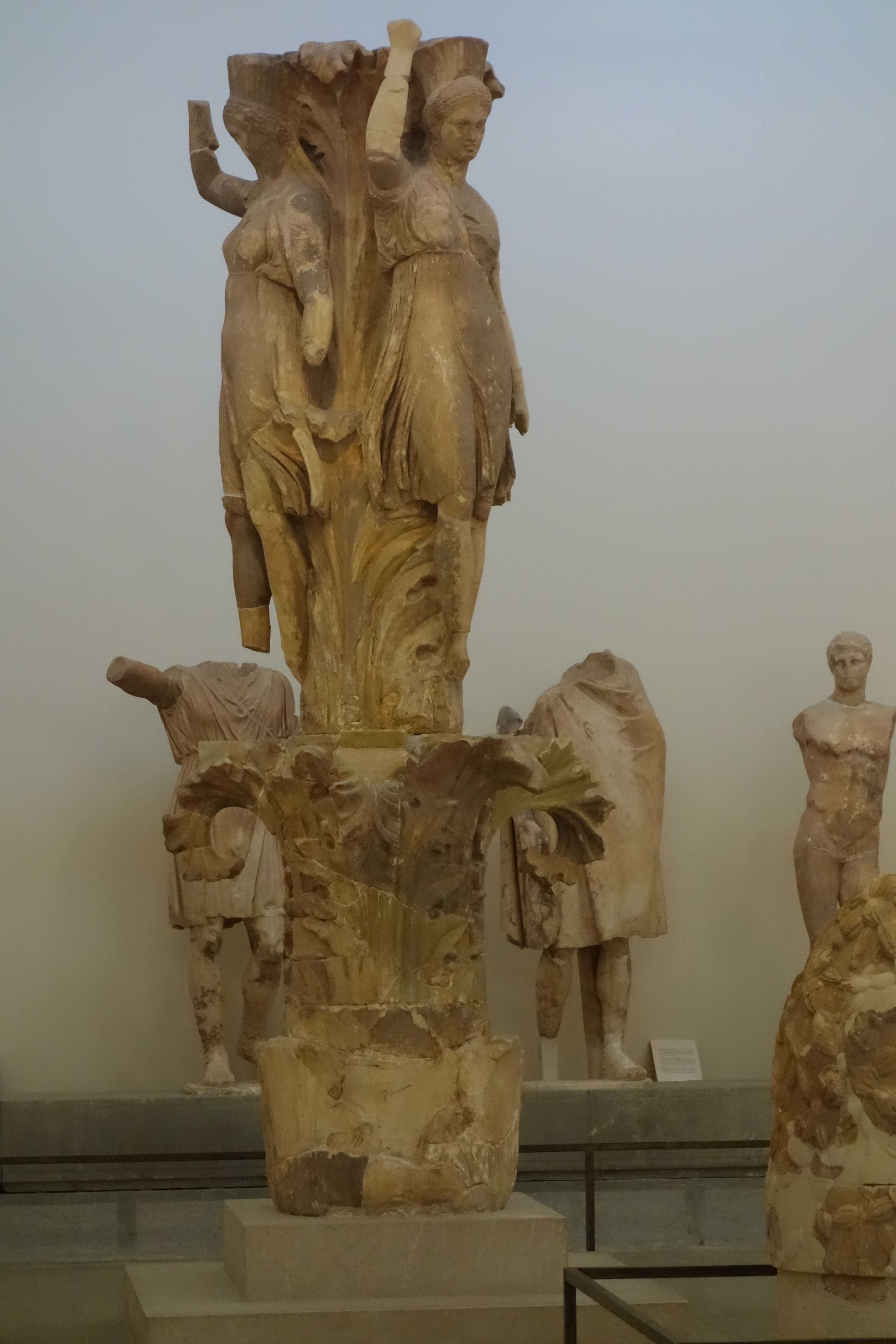 Akanthos Column (Archaeological Museum of Delphi)